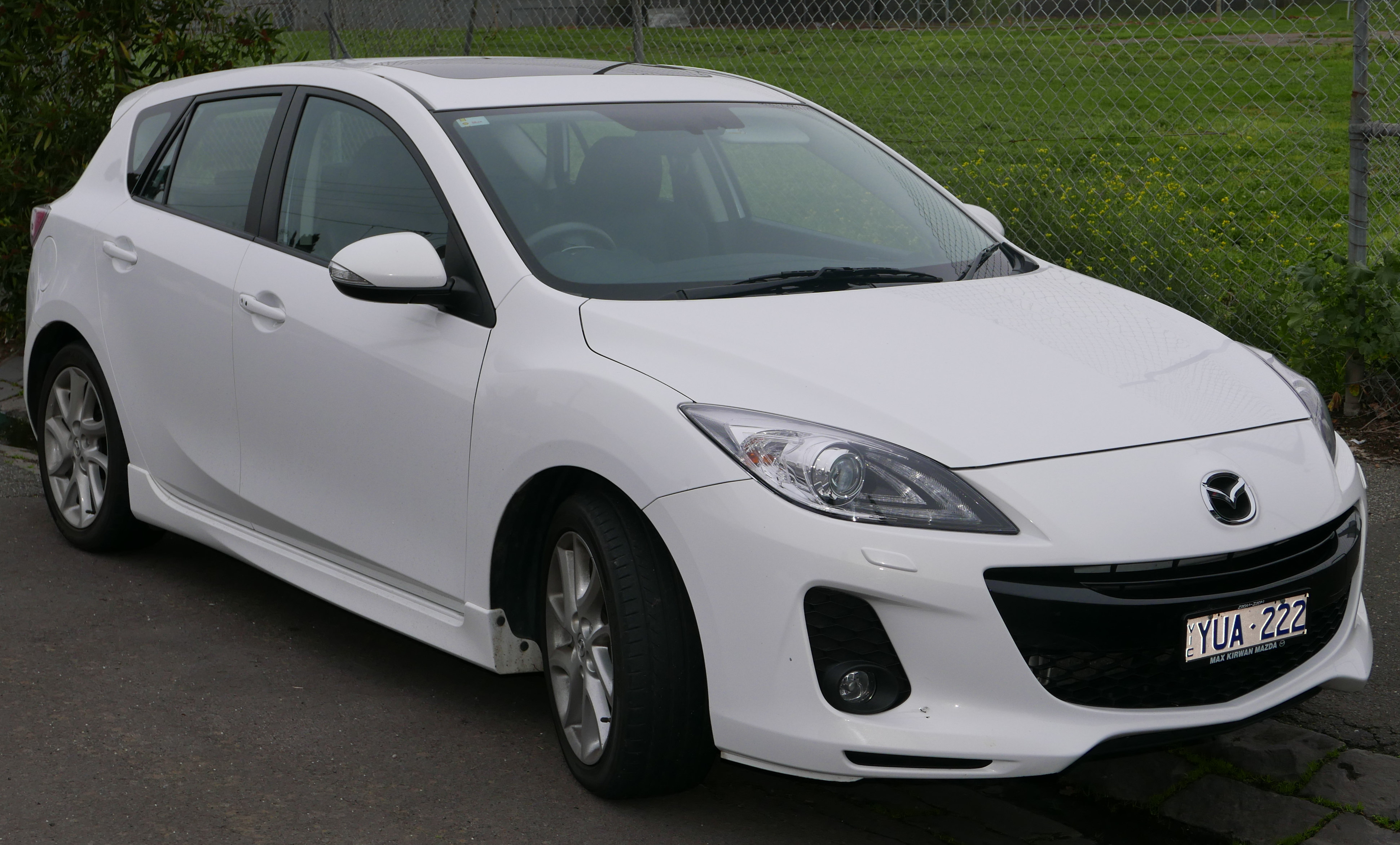 2012 Mazda3 (BL Series 2 MY12) SP25 hatchback. Photographed in Coburg, Victoria, Australia. Vehicle registration enquiry resultsJurisdictionVictoriaRegistrationYUA222Chassis codeJM0BL10L200320310Engine codeL510719446Compliance date2012-01Year of manufacture2012